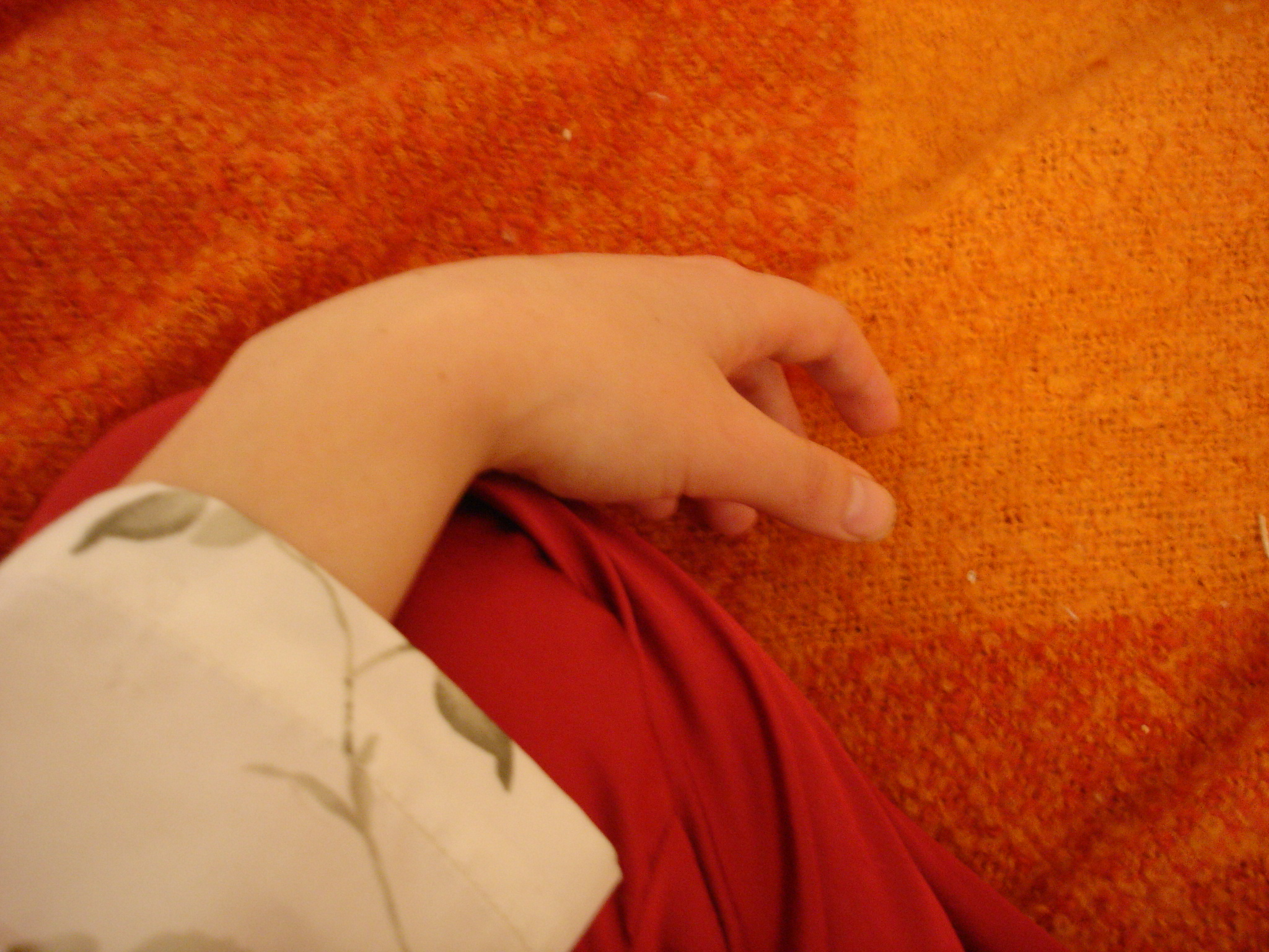 Hand of a Taoist master communicating on gesture language, thumb showing how you ought to guide your life toward positive feelings with the help of a holistic picture of the world, the rest of the hand showing her own view on the world which ought to lead to a final paradise on Earth.